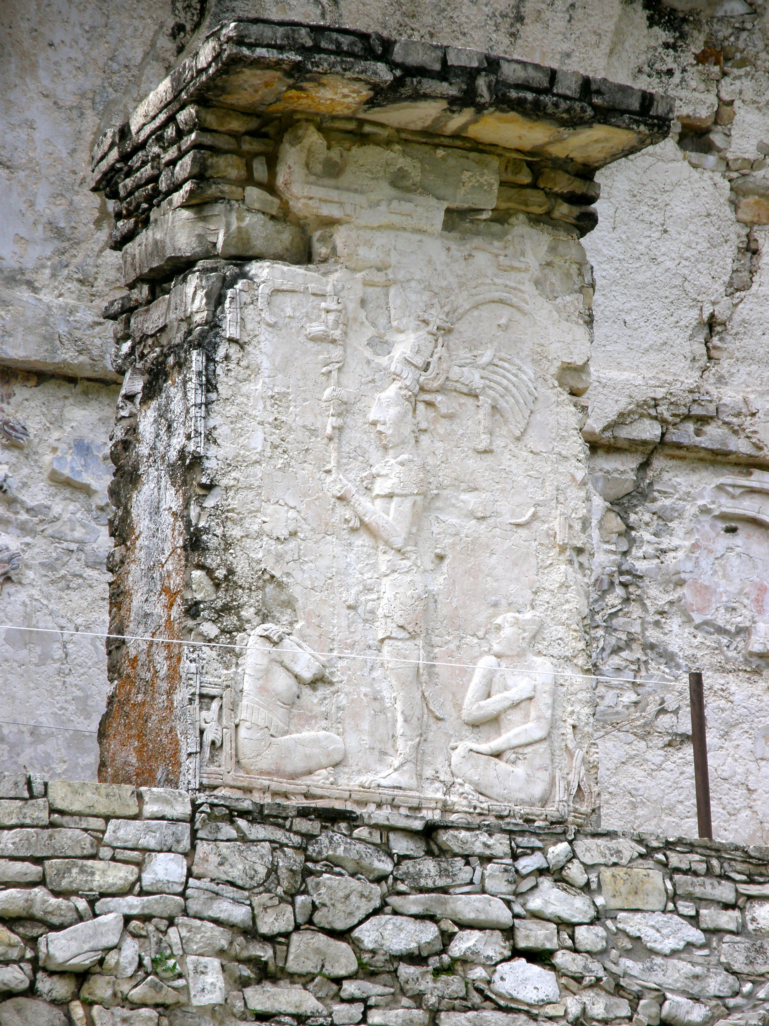 Palenque (Mexico). Maya site. Stucco pier of House A depicting K'inich Janaab' Pakal I